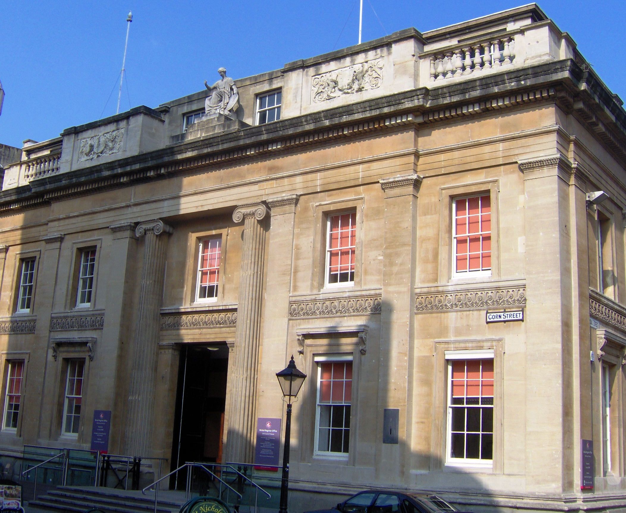 The former 1827 council house, Corn St Bristol. Taken by Rod Ward 20th April 2007